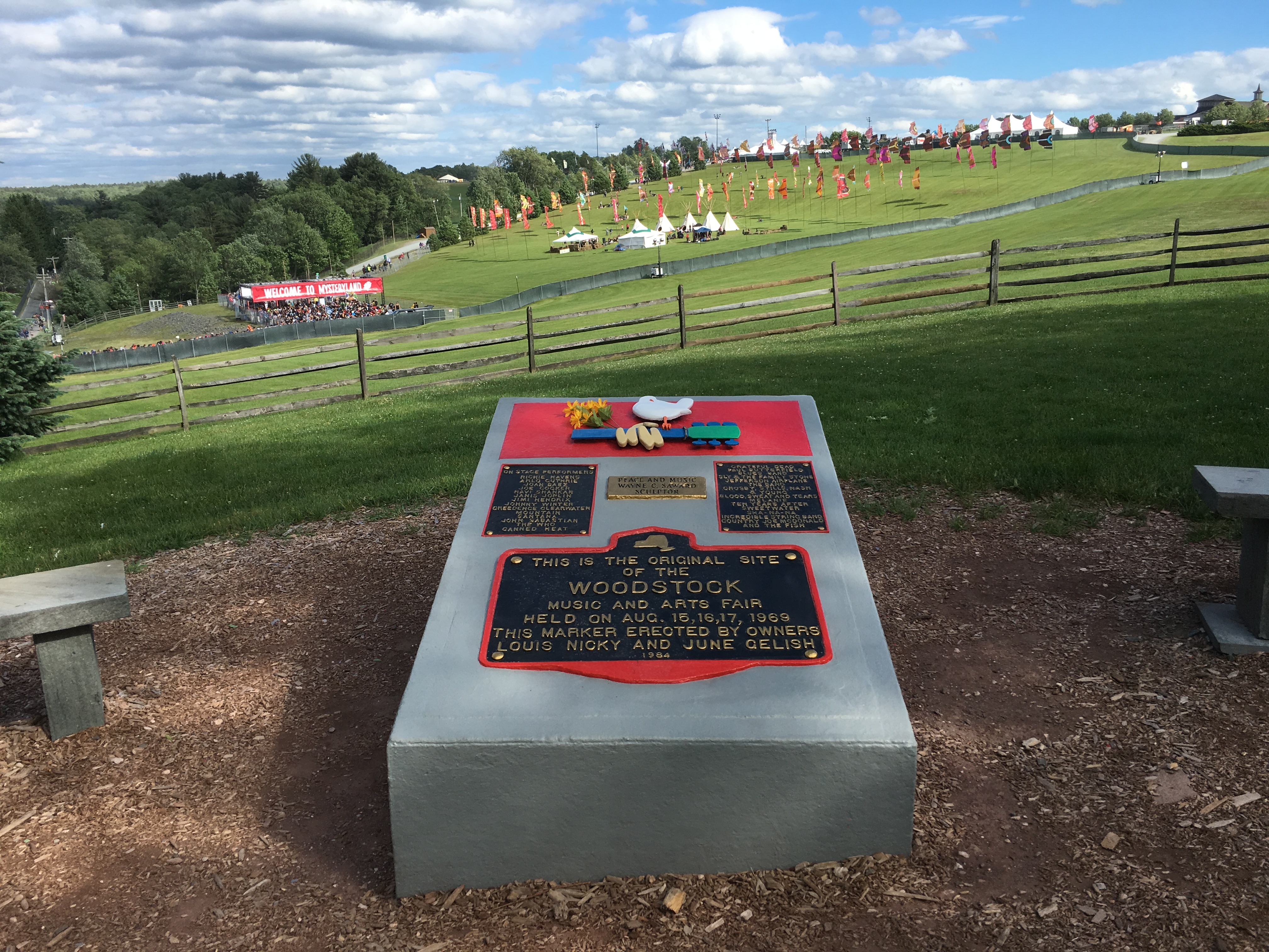 This monument marks the site of the original 1969 Woodstock Music and Arts Festival site in Bethel, New York.